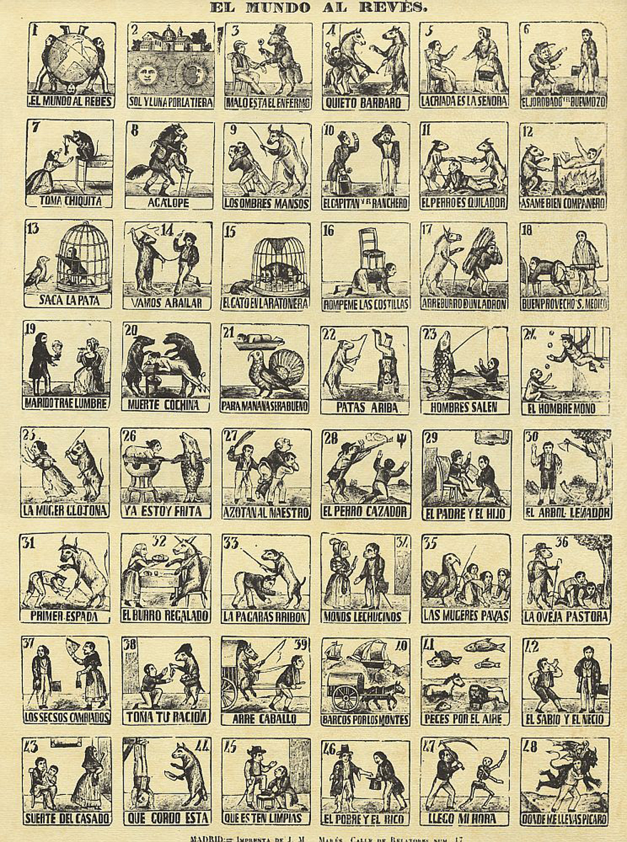 The Auca El Mundo al revés – “The world upside down” – (19th century) from the print shop of J. M. Marés in Madrid.